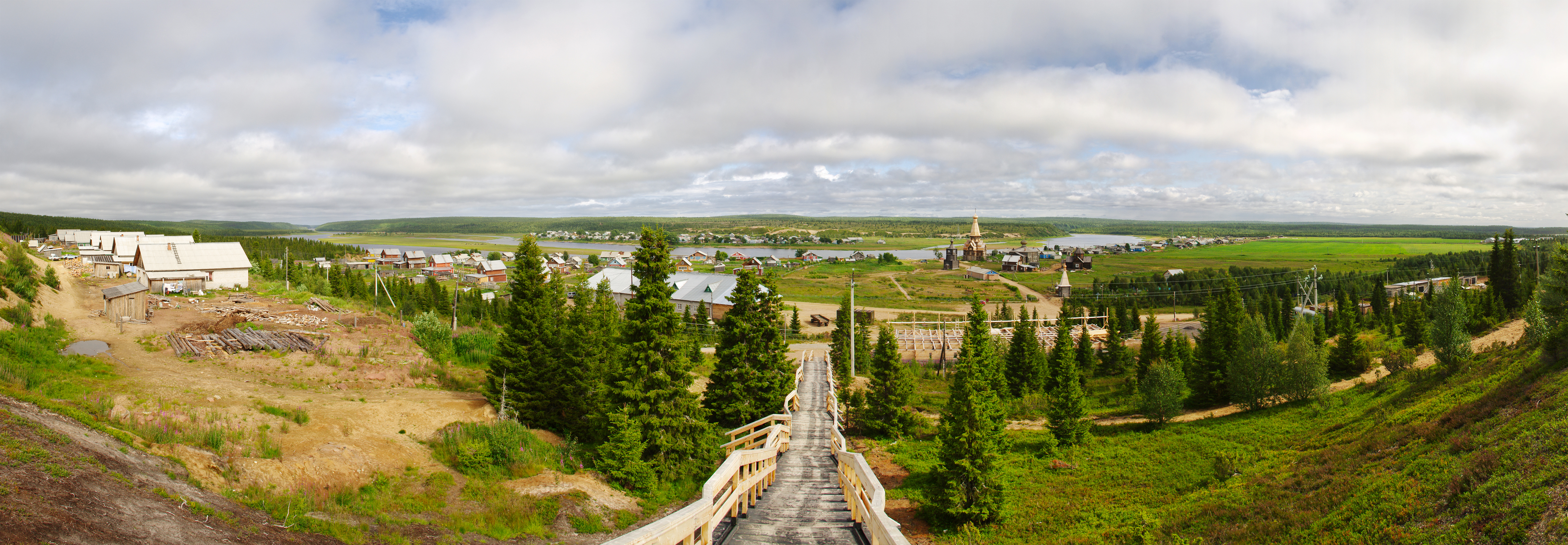 Panoramic view of Varzuga